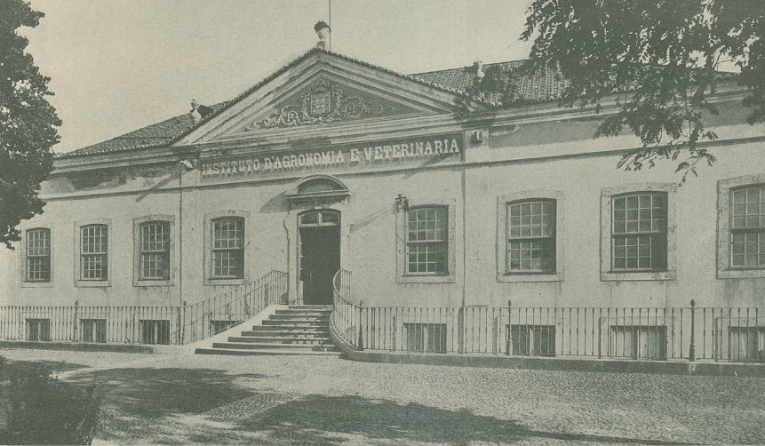 Instituto de Agronomia e Veterinária (Institute of Agronomy and Veterinary Medicine), predecessor of the current Instituto Superior de Agronomia (Superior Institute of Agronomy) and the Faculdade de Medicina Veterinária da Universidade de Lisboa (Faculty of Veterinary Medicine of the University of Lisbon).